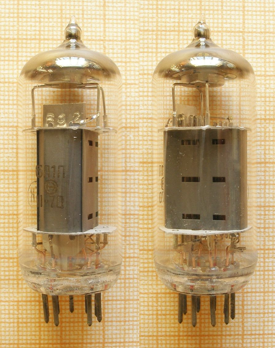 Nonode 6L1P (6Л1П). Manufactured by the Vostok plant in Novosibirsk, 1970